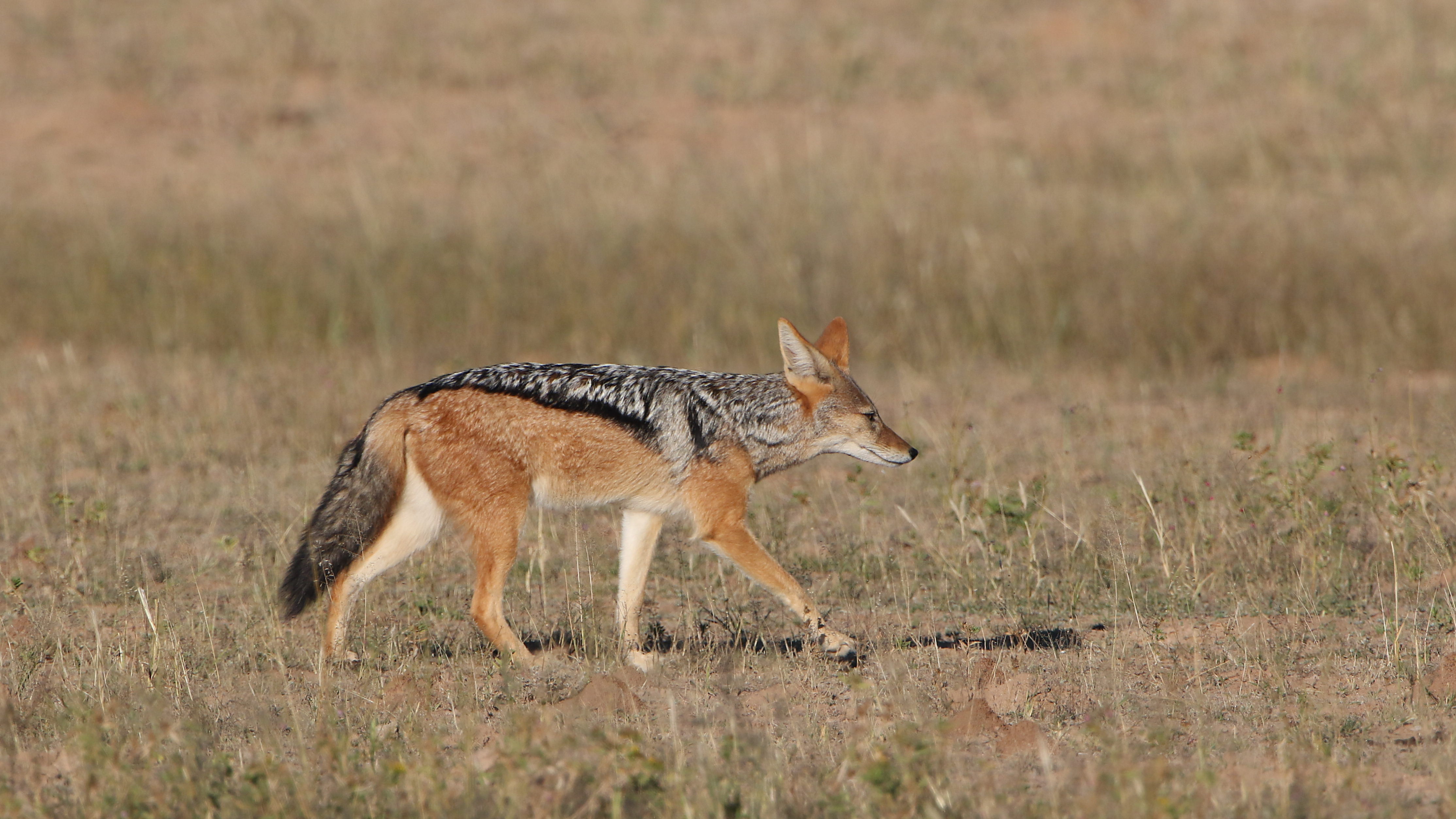 A brown hyena wandered down and joined them as they fed. It chewed the springbok in half, grabbed the back half, and carried it off. The cheetahs did nothing but look on with amazement. Maybe mamma cheetah was teaching her four cubs to watch out for hyenas. After it left, the jackals started to move in, but they were wary of the cheetahs, which continued feeding on the remaining half. Then, all five of them popped up together, and there was the hyena running in at a brisk pace. It grabbed the other half, and though it could barely lift it, it carried it off into the bushes. The cheetahs just looked dejected, and the jackals moved in and cleaned up the intestines and other nasty bits. The cheetahs came back, ate whatever was left and wandered off. About 2 hours later I saw them at the water hole nearby. Two days later we saw them again, hunting much further south down the Aub.